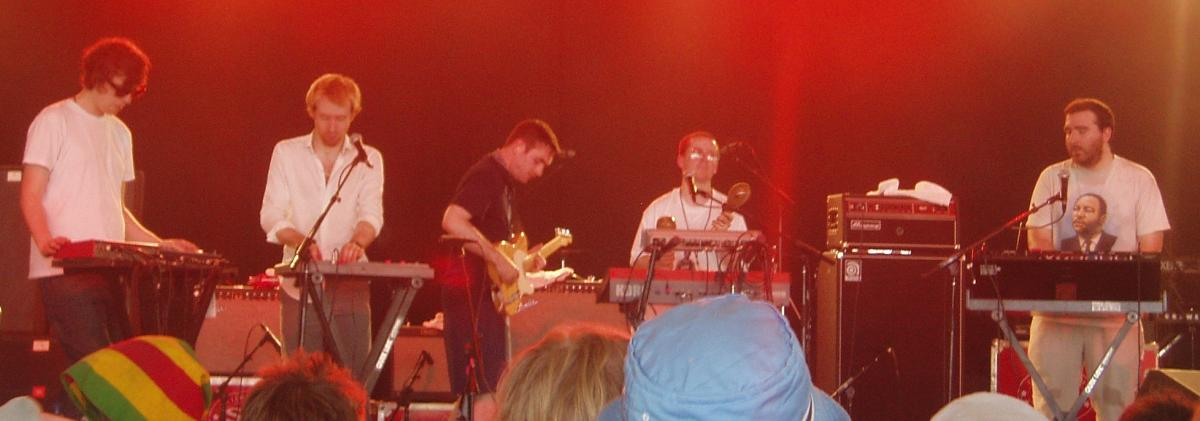 Hot Chip at Bonnaroo, June 16, 2007